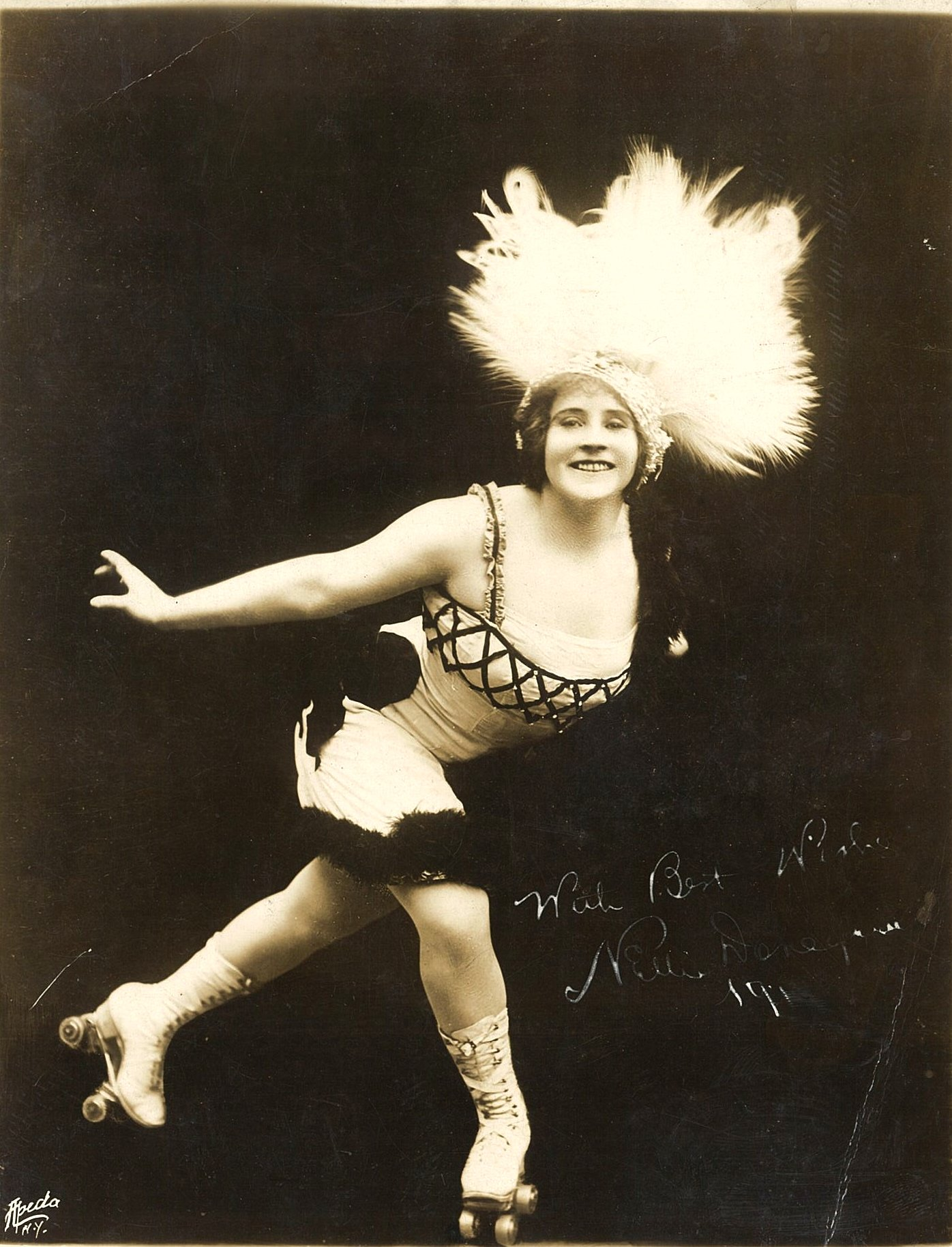 Nellie Donegan, roller skater, 1913 / photographer Apeda (N.Y.) Format: Photograph Find more detailed information about this photograph: .au/item/itemDetailPaged.aspx?itemID=447213 Search for more great images in the State Library's collections: .au/search/SimpleSearch.aspx From the collection of the State Library of New South Wales